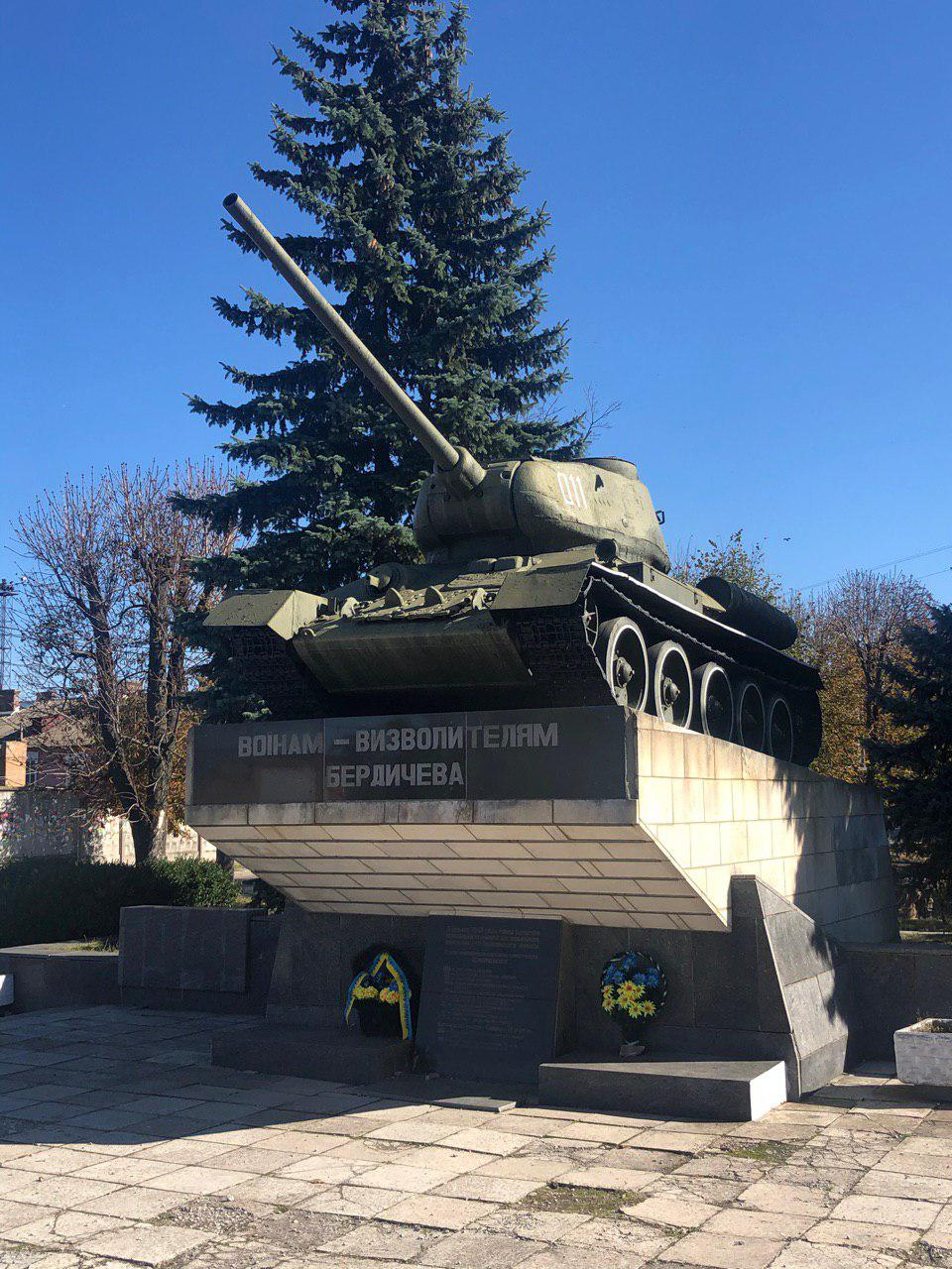 T-34 Berdichev